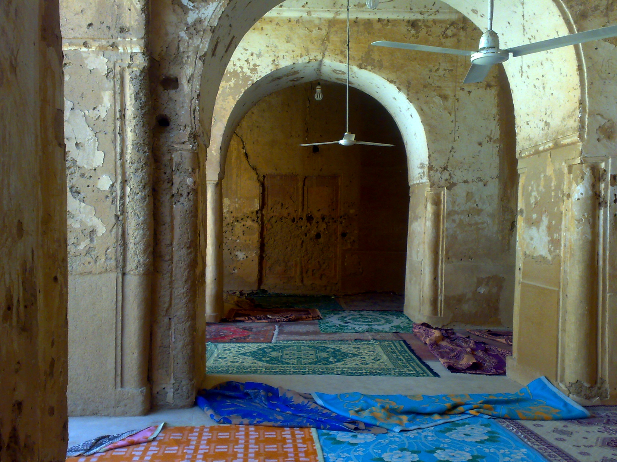 Shabestan in James Mosque of Fahraj.